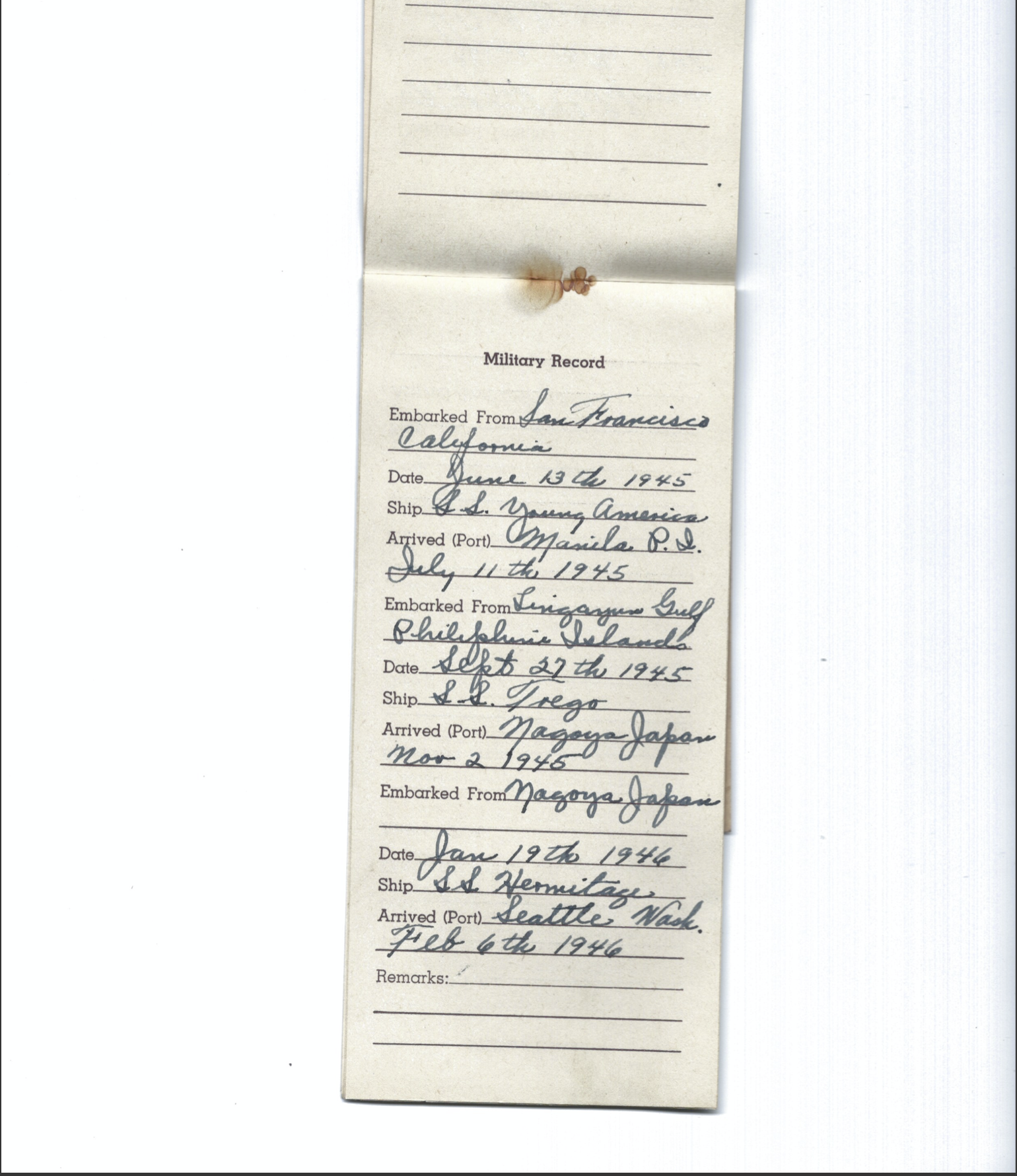 A servicemen discharge records showing his passage on the USS Hermitage.